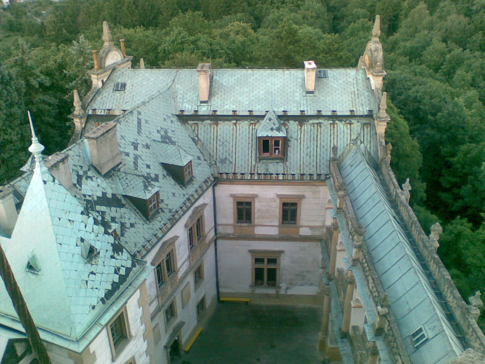 StranovCourtyard